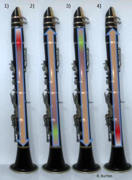 wave cycle of a single oscillation in a closed end system (clarinet)